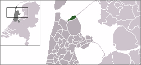 Location of Wieringen